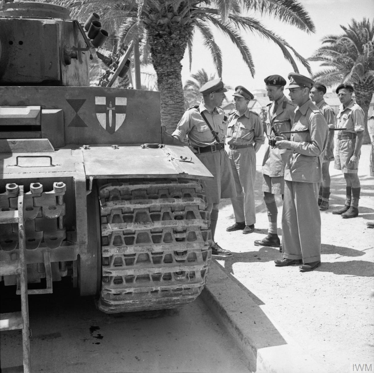 The British Army in Tunisia 1943 The King inspects a captured German Tiger I tank in Tunis, June 1943.